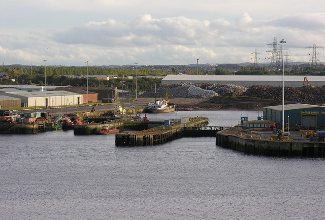 Tyne Dock, South Shields Tyne Dock viewed from a departing ferry. Once busy with coal exports and timber imports, this Dock now has a small amount of cargo trade on its west side.